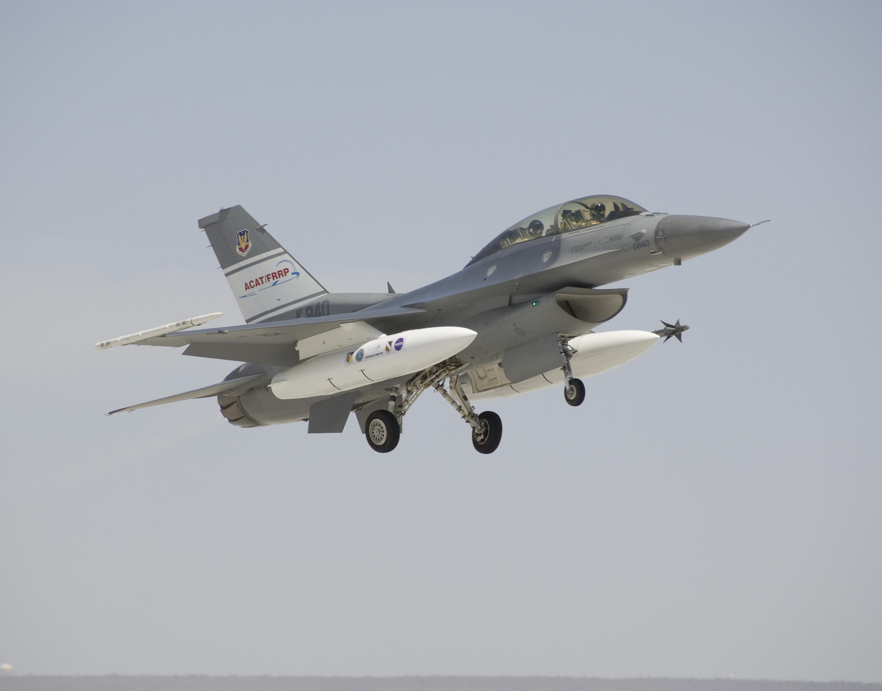 The U.S. Air Force's F-16D Automatic Collision Avoidance Technology (ACAT) aircraft takes off from Edwards Air Force Base on a flight originating from NASA’s Dryden Flight Research Centre. Dryden and the Air Force Research Laboratory are collaborating to develop collision avoidance technologies that would reduce the risk of ground and mid-air collisions.